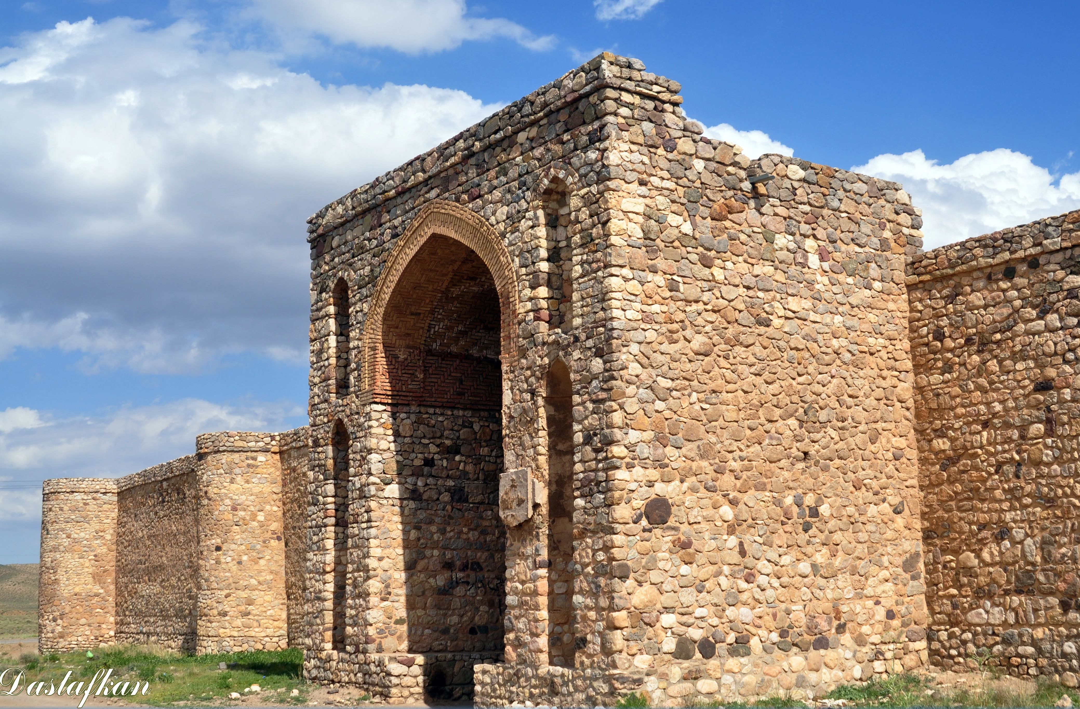 Old castle in Semnan County, Semnan Province, Iran